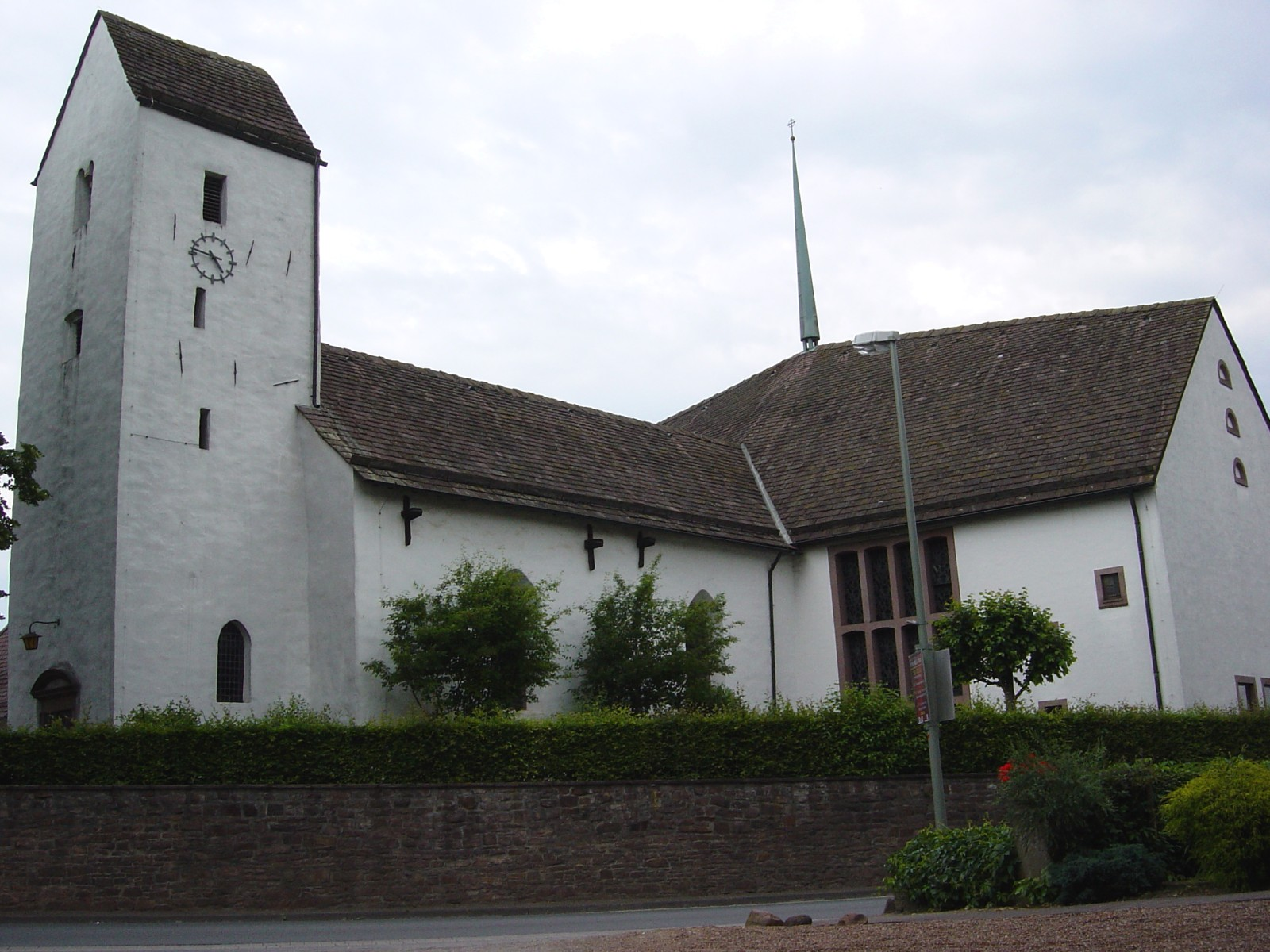 Catholic Church St. Johannes Baptist Godelheim, Höxter (Germany)